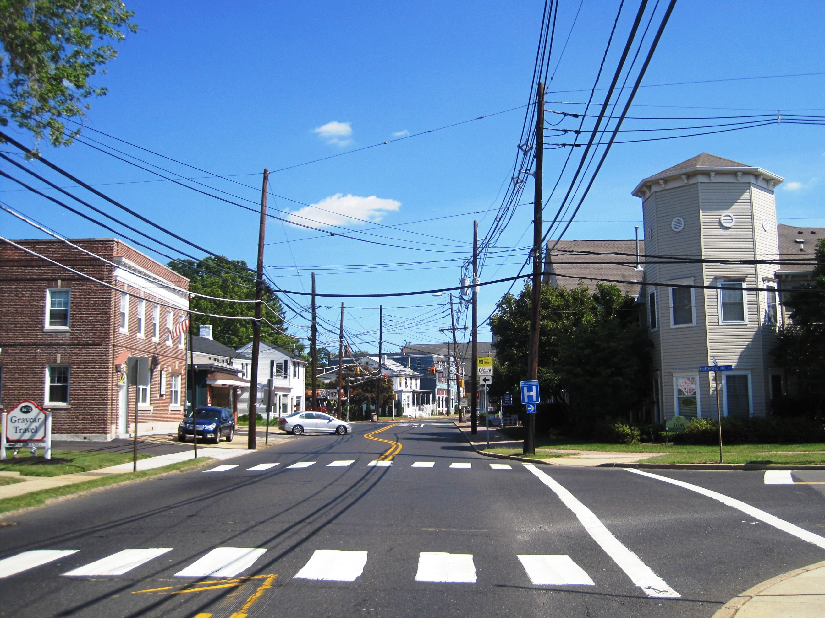 Photo of Hamilton Square, New Jersey a census designated place within Hamilton Township, Mercer County. Photo taken along eastbound Notthingham Way (County Route 618) at Hamilton Square-White Horse Road.